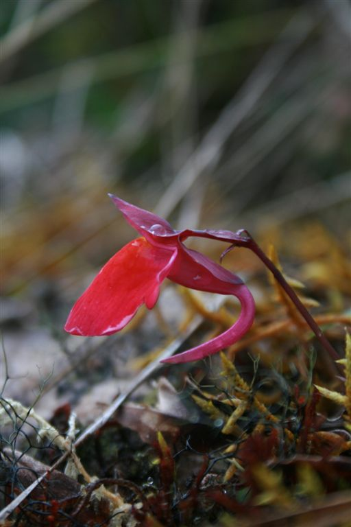 Utricularia quelchii of mount Roraima, Venezuela